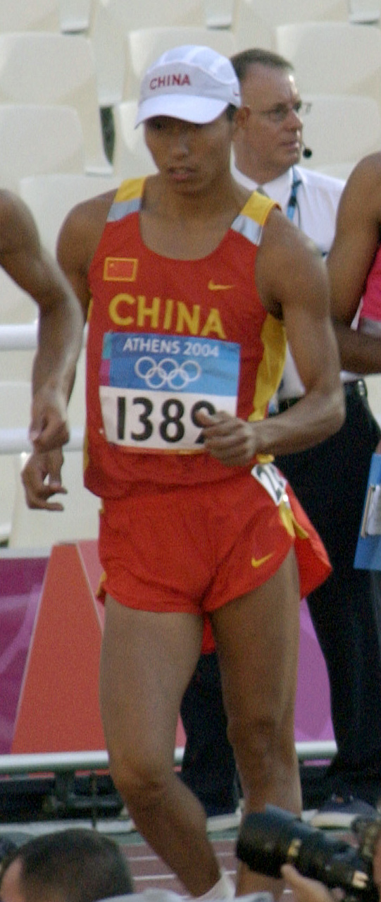 Zhu Hongjun in the 20K Racewalk competition during the 2004 Olympics at the Olympic Stadium in Athens, Greece.